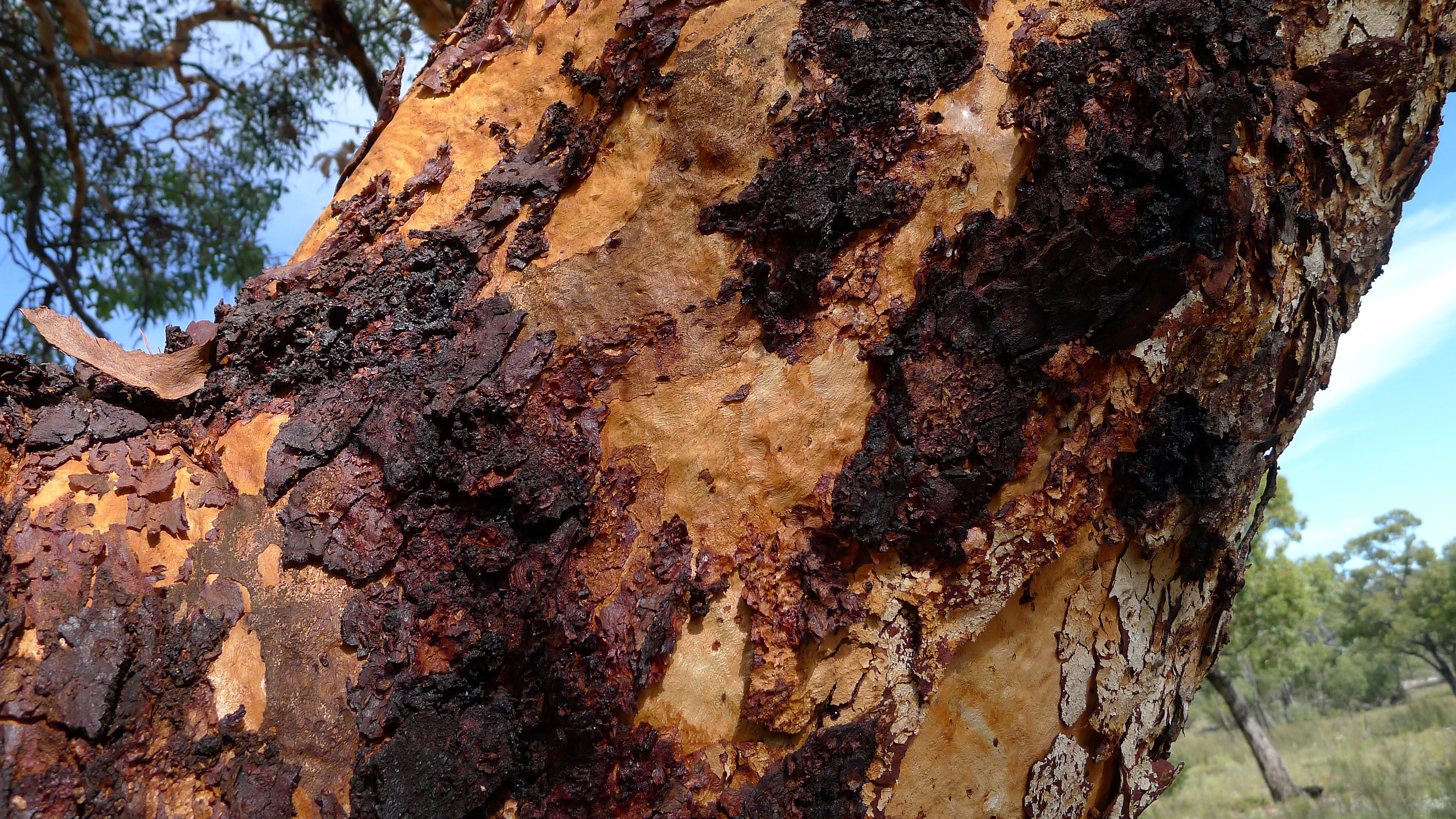 If you swipe your finger on the bark, you get a soft powder. Powderbark, possibly Eucalyptus accedens. Wandoo National Park, Western Australia, May 2012.